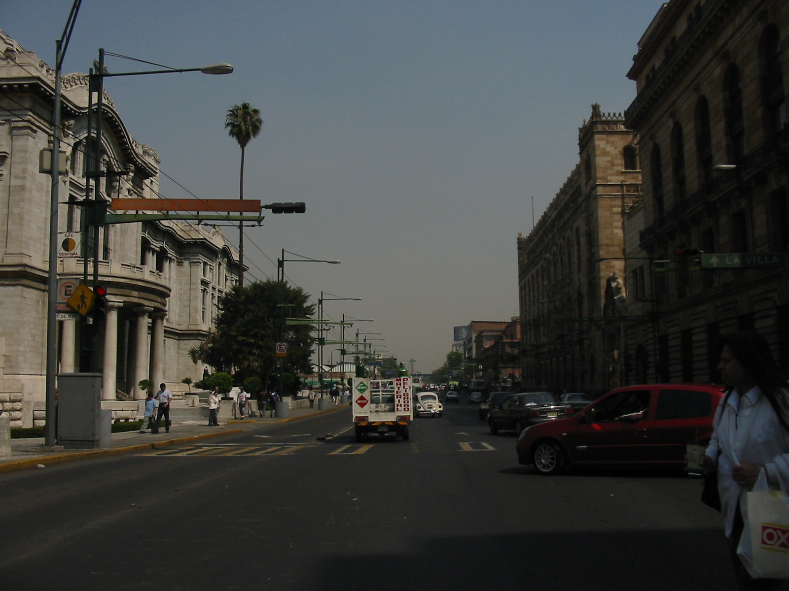 Eje Central in Mexico City, looking north. The Palacio de Bellas Artes is on the left and the Palacio de Correo de Mexico is on the right.